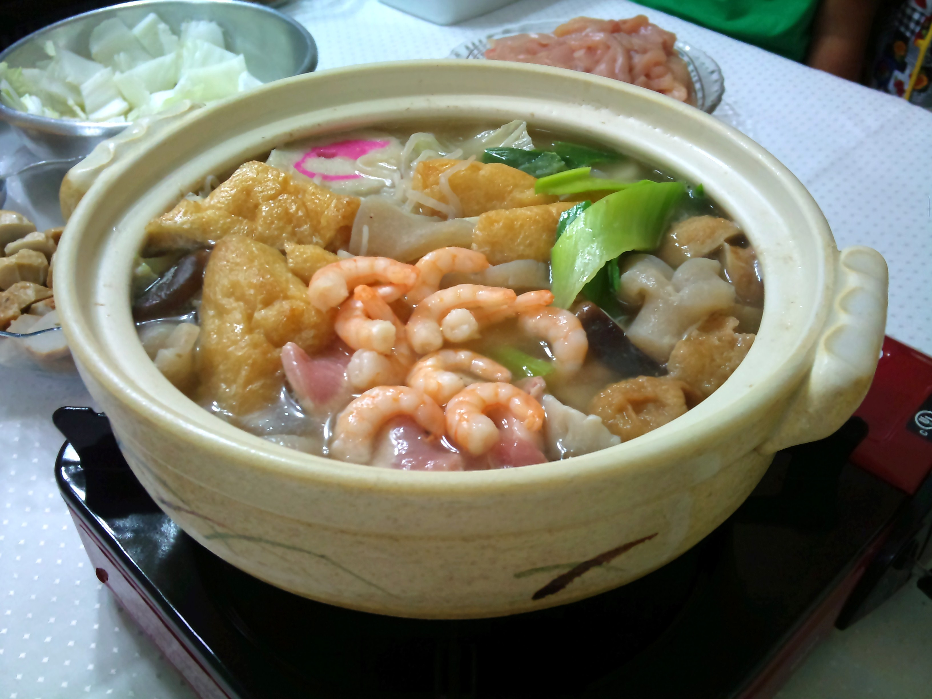 shabu-shabu